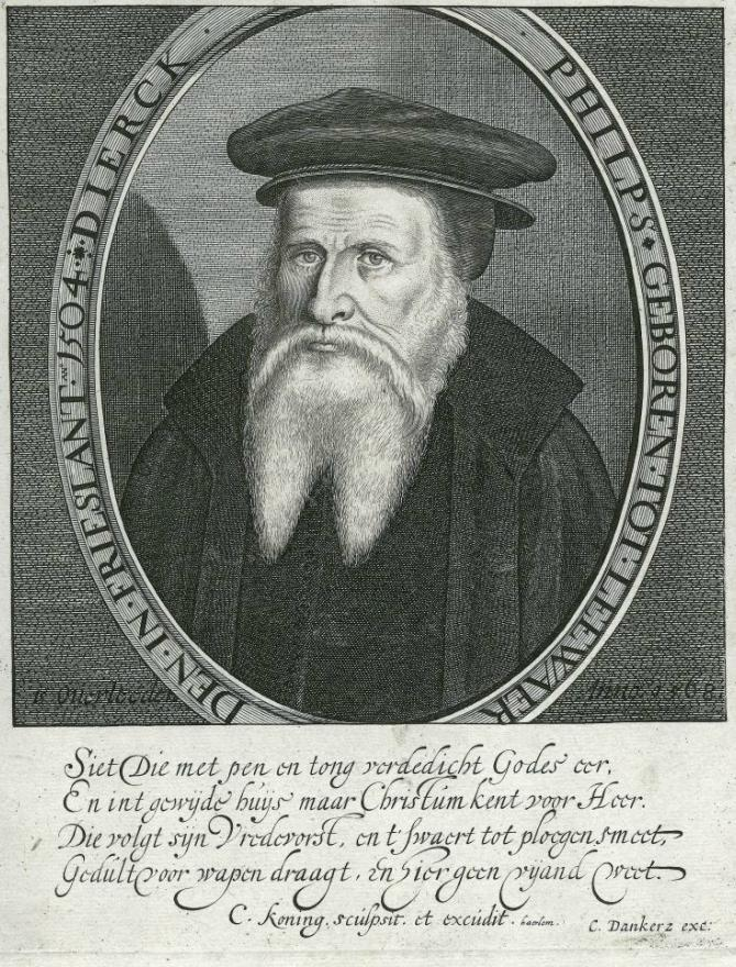 Dirck Philips (1504-1568)